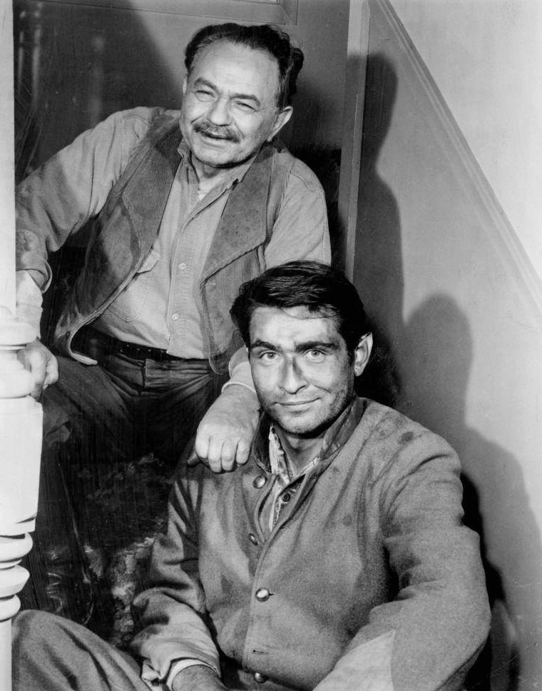 Photo of Edward G. Robinson and his son, Edward G. Robinson, Jr., who was also an actor, from an episode of Zane Grey Theatre.